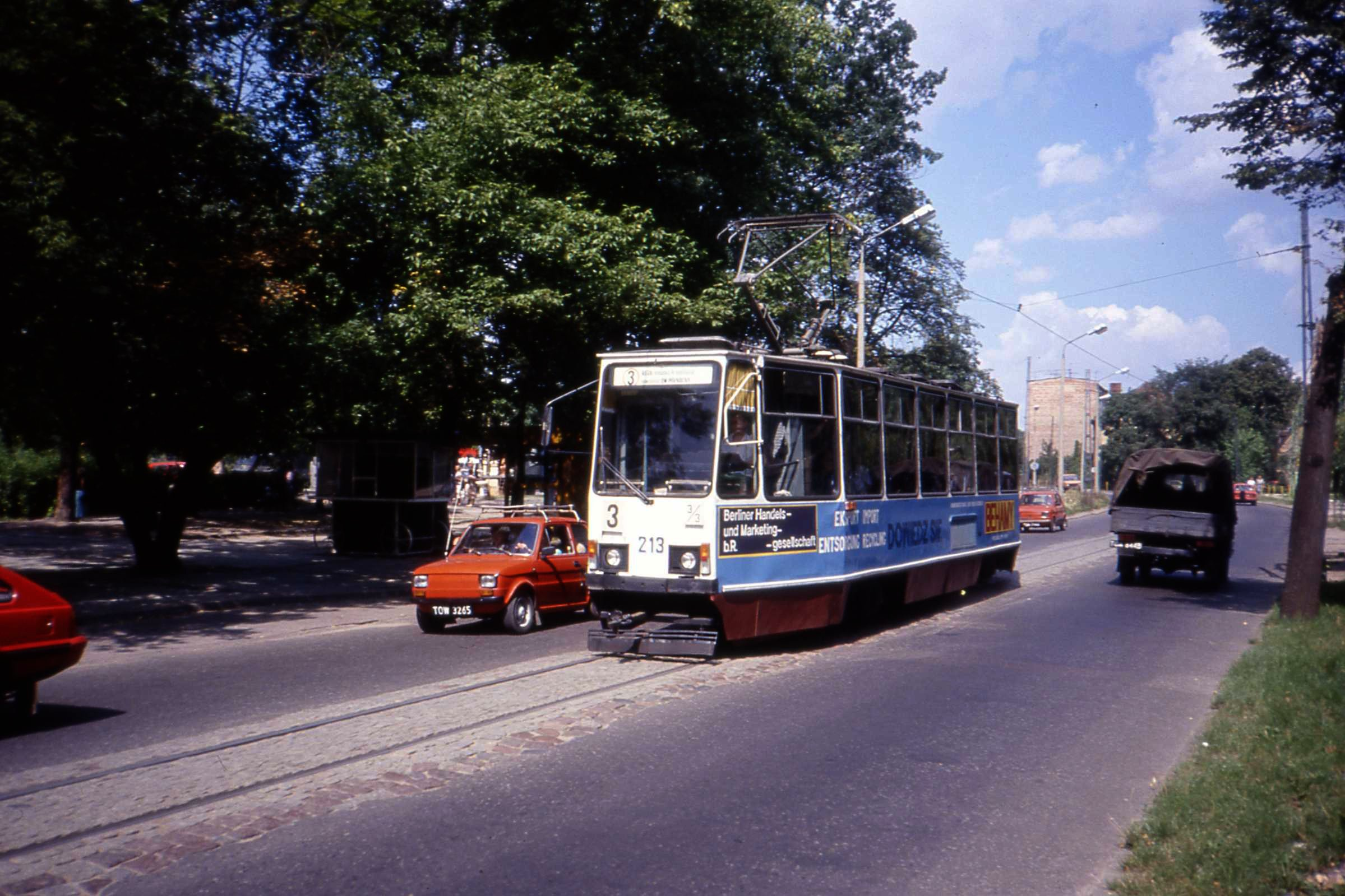 Konstal tram no 213 on route 3 Overall advertising for BEHAMY - Berliner Handels und Marketing . 61 of these Konstal 805Na trams were bought by MZK Torun for the 1000mm gauge system between 1980 and 1990, 211-271. 213 is one of the first.